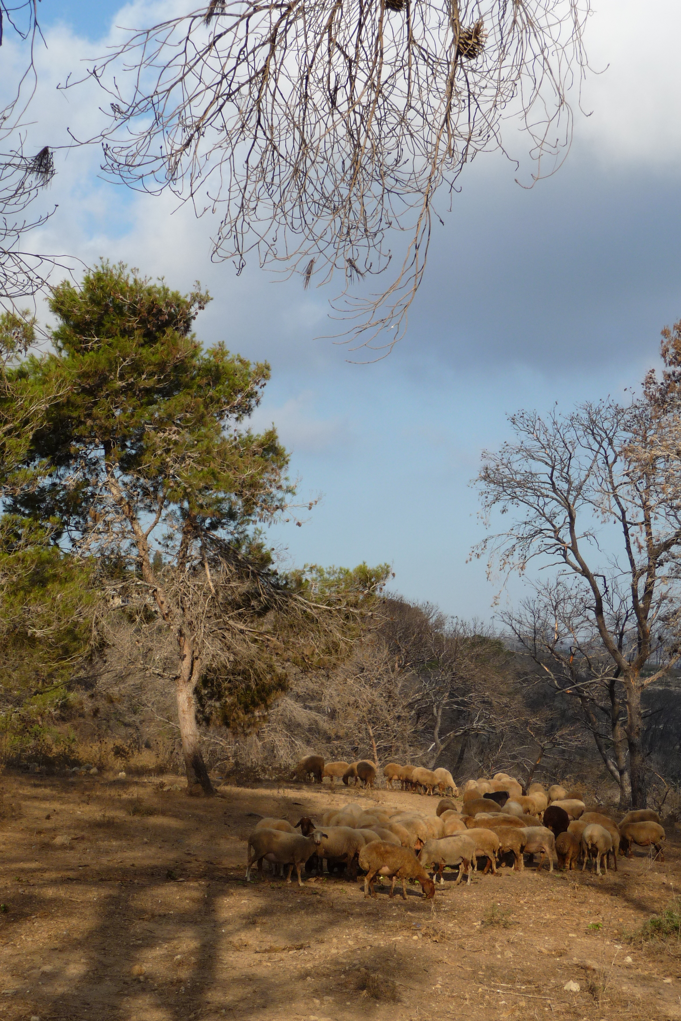 Mount Carmel